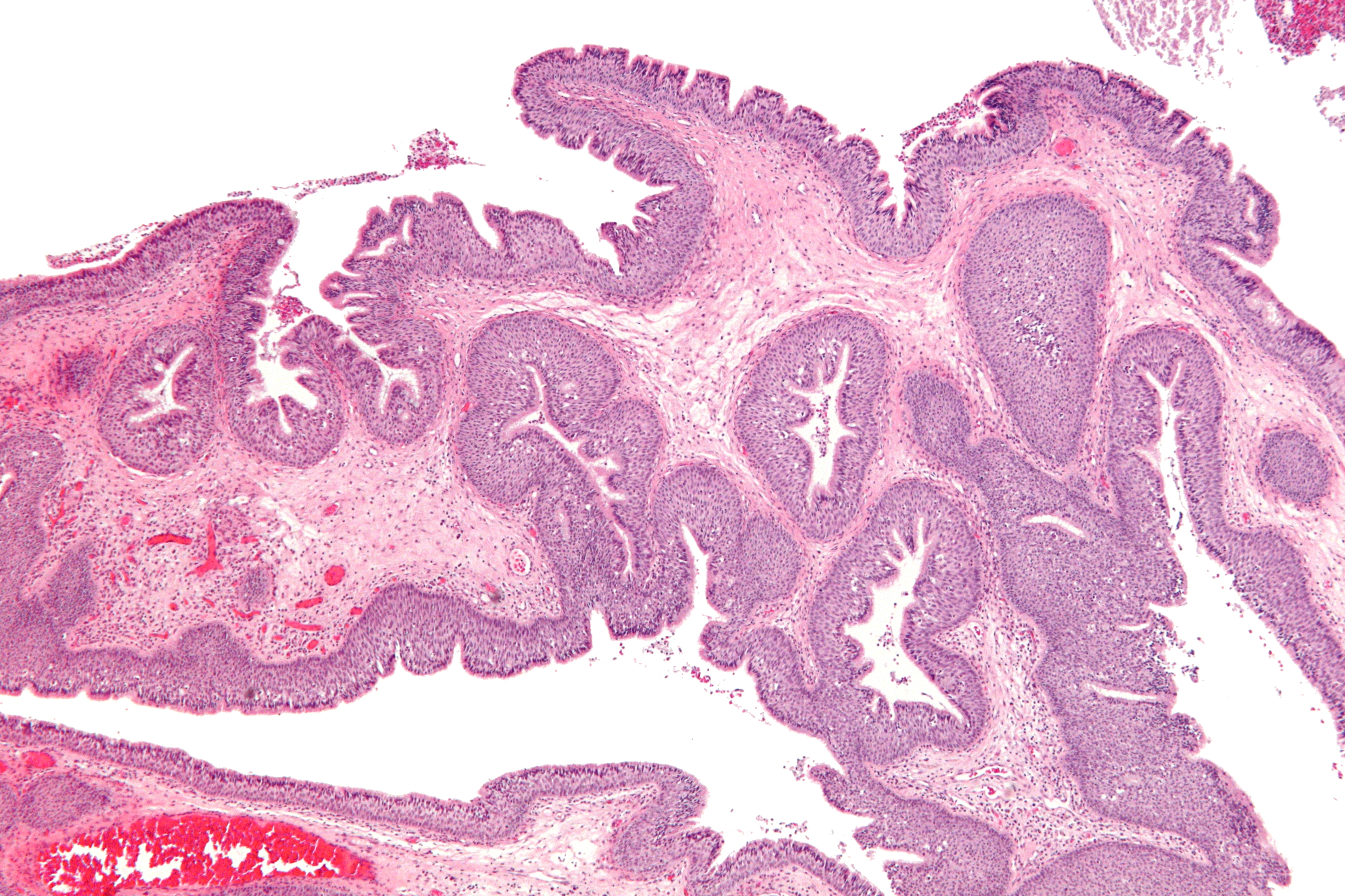 Low magnification micrograph of a sinonasal papilloma, also Schneiderian papilloma and Schneiderian polyp. H&E stain. Schneiderian papillomas are often subclassified as:[1] Inverted (Schneiderian) - most common ~ 60-65%. Fungiform (Schneiderian) - less common ~ 30-35%. Oncocytic (Schneiderian) - least common ~ 5% On the very high magnification images cilia are clearly seen. Related images Very low mag. Low mag. Intermed. mag. High mag. Very high mag. Very high mag. (cropped) References ↑ Barnes L (March 2002). "Schneiderian papillomas and nonsalivary glandular neoplasms of the head and neck". Mod. Pathol. 15 (3): 279–97. PMID 11904343.